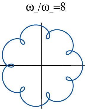 ion's trajectory penning trap